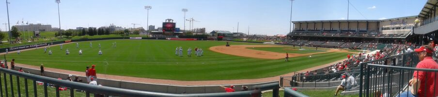 Panorama of Hawks Field at Haymarket Park in Lincoln, Nebraska.